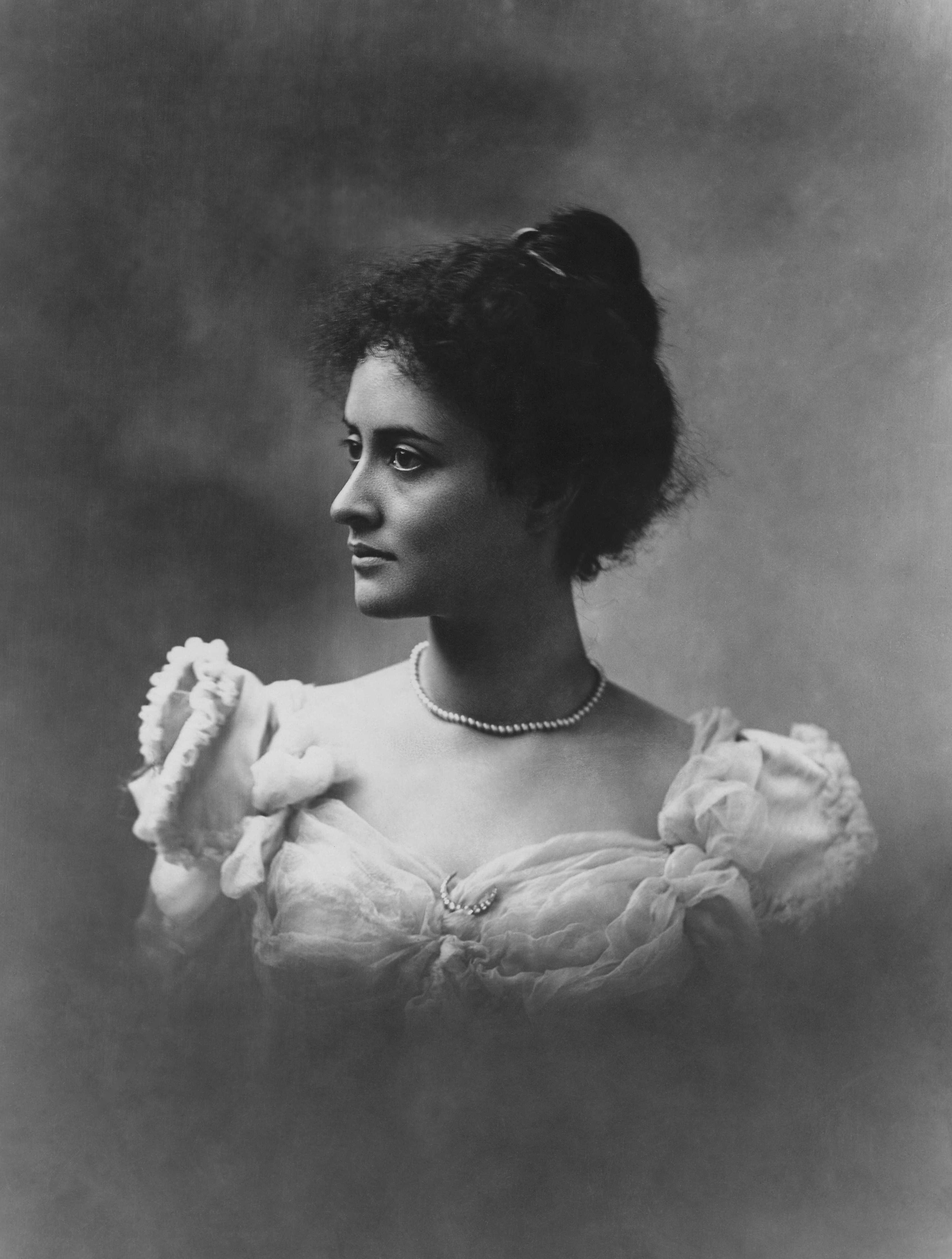 Princess Kaiulani in 1897